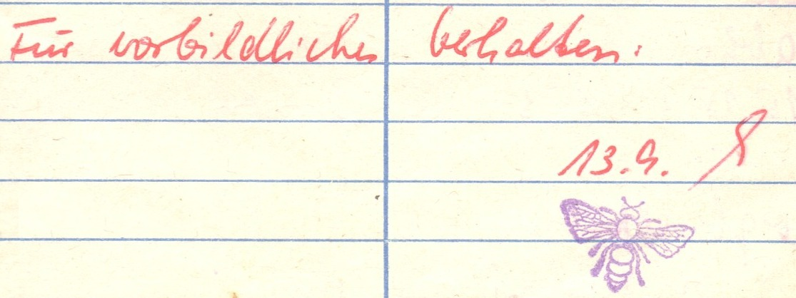 Entry in a German Muttiheft with a small bee as an accolade